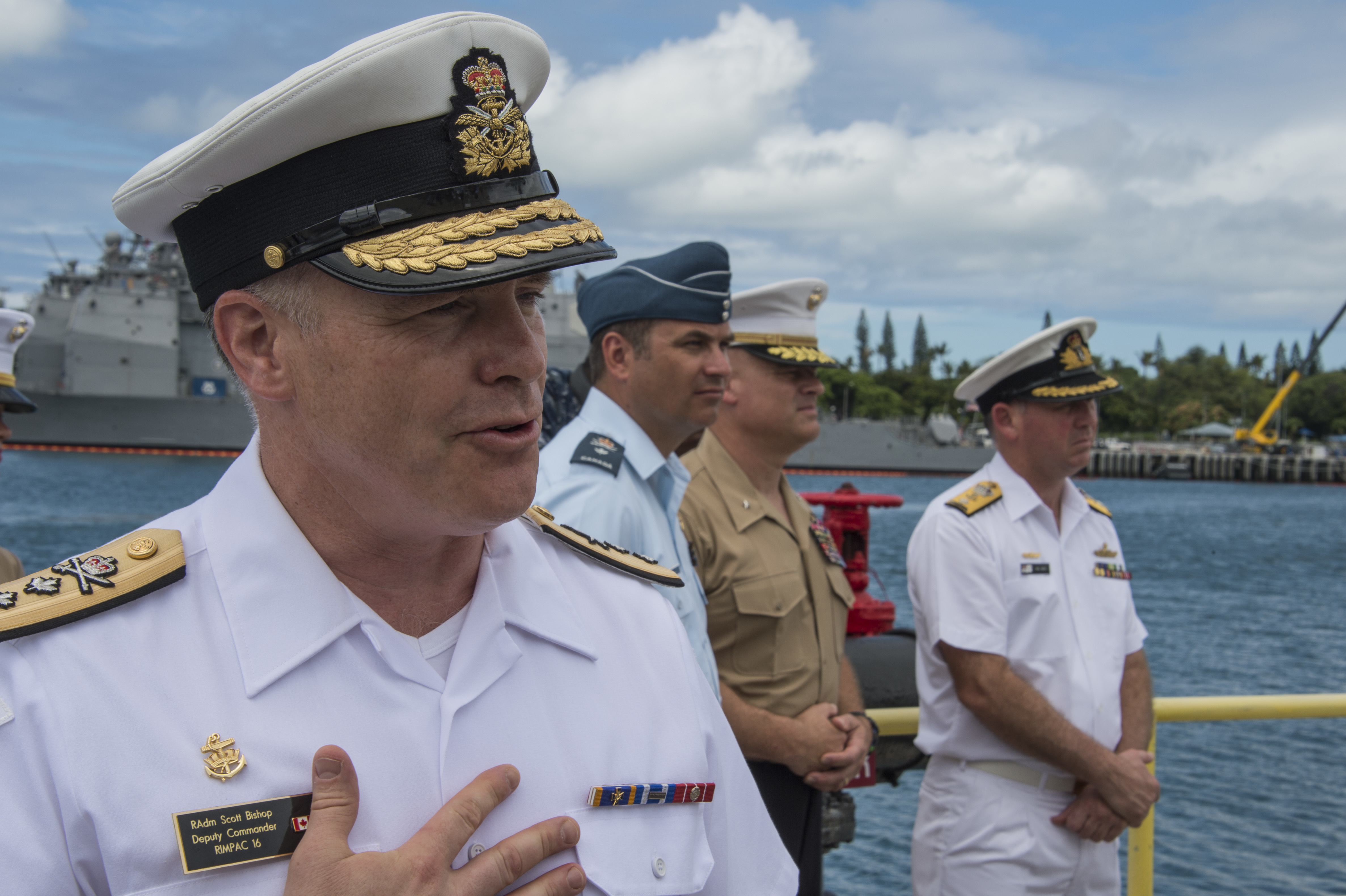 Joint Base Pearl Harbor-Hickam (July 5, 2016) Royal Canadian Navy Rear Adm. Scott Bishop, RIMPAC Deputy Commander Combined Task Force addresses attendees during a news conference at Joint Base Pearl Harbor-Hickam, Hawaii at Rim of the Pacific 2016. Twenty-six nations, 45 ships, five submarines, more than 200 aircraft and 25,000 personnel will participate in the biennial Rim of the Pacific exercise scheduled June 30 to Aug. 4, in and around the Hawaiian Islands and Southern California. The world's largest international maritime exercise, RIMPAC provides a unique training opportunity that helps participants foster and sustain cooperative relationships that are critical to ensuring the safety of sea lanes and security on the world's oceans. RIMPAC 2016 is the 25th exercise in the series that began in 1971. (Royal Canadian Navy Combat Camera photo by Corporal Brett White-Finkle/Released)